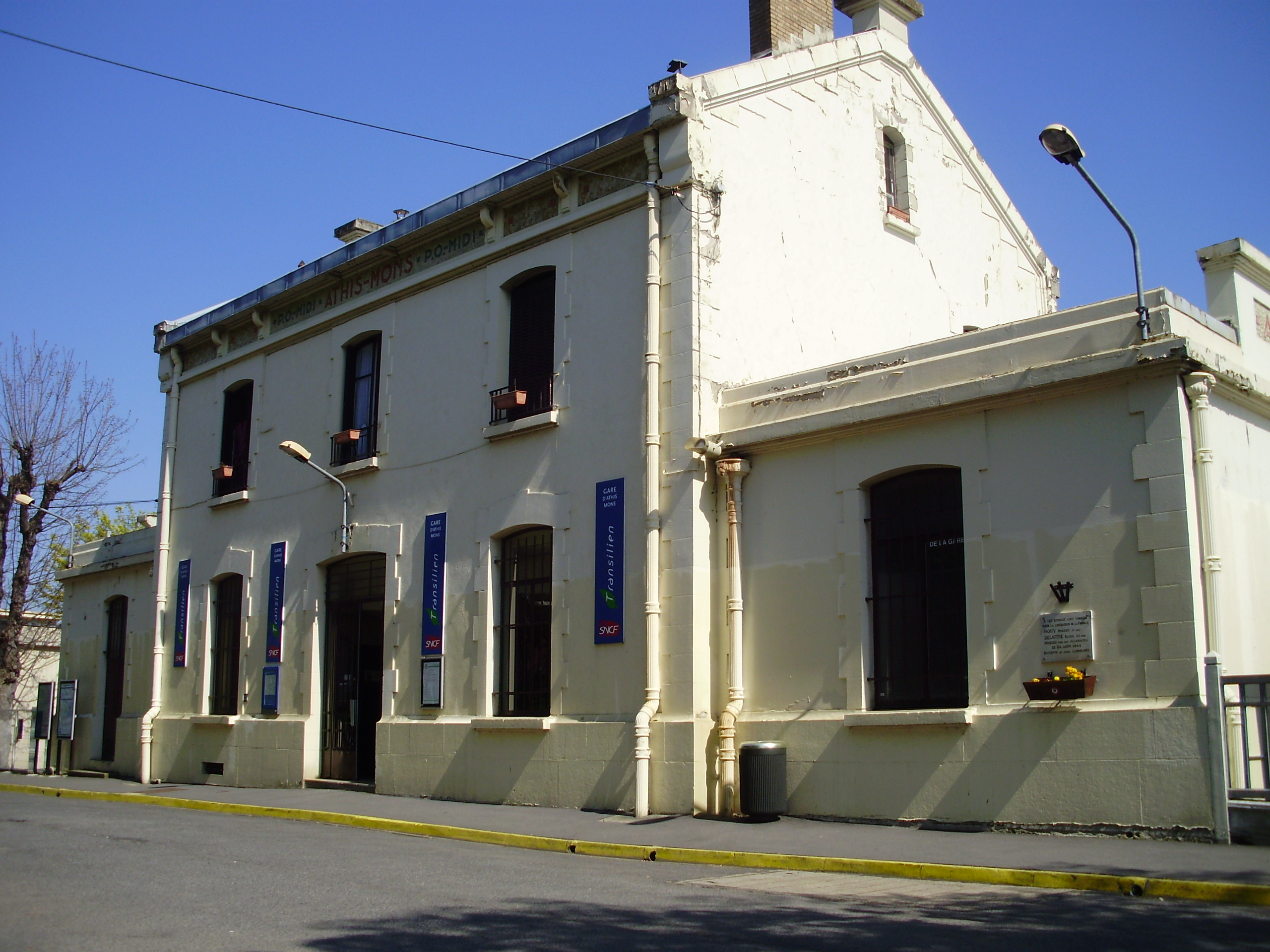 Building of Athis-Mons station, Essonne, France